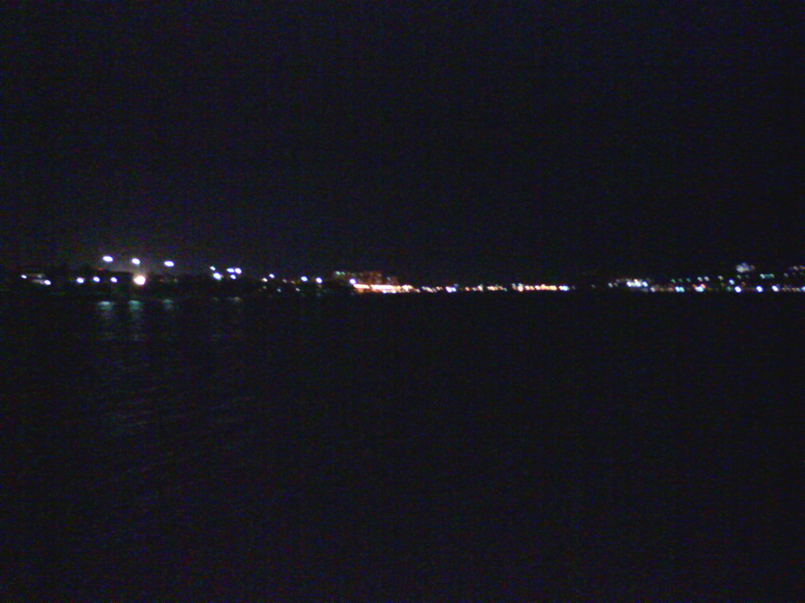 Picture taken on 28-05-2014 with my phone.